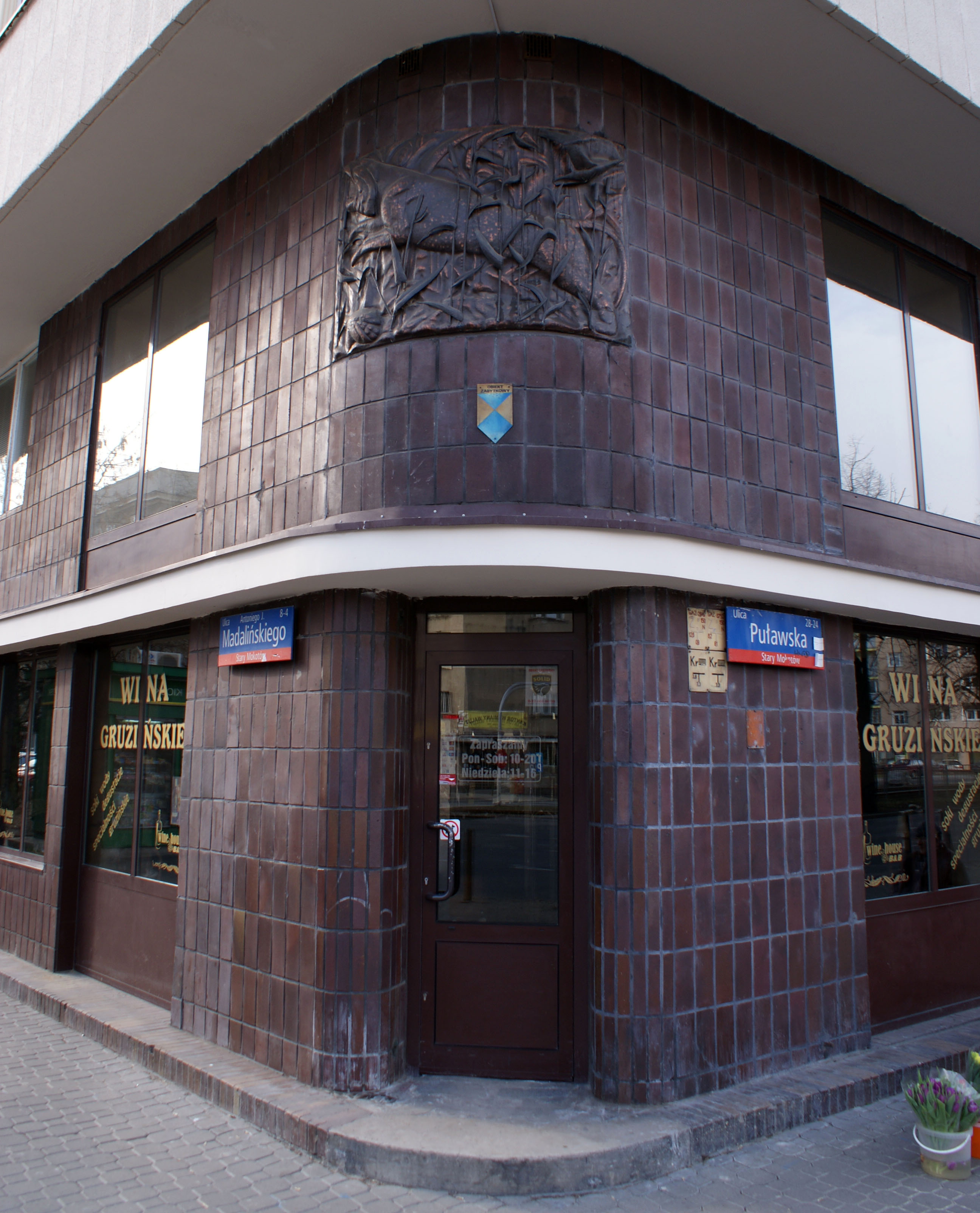 Tygrys (Tiger) relief by Stanisław Tomaszewski on Dom Wedla (Wedel's House) at Puławska 28 street in Mokotów district, Warsaw, Poland